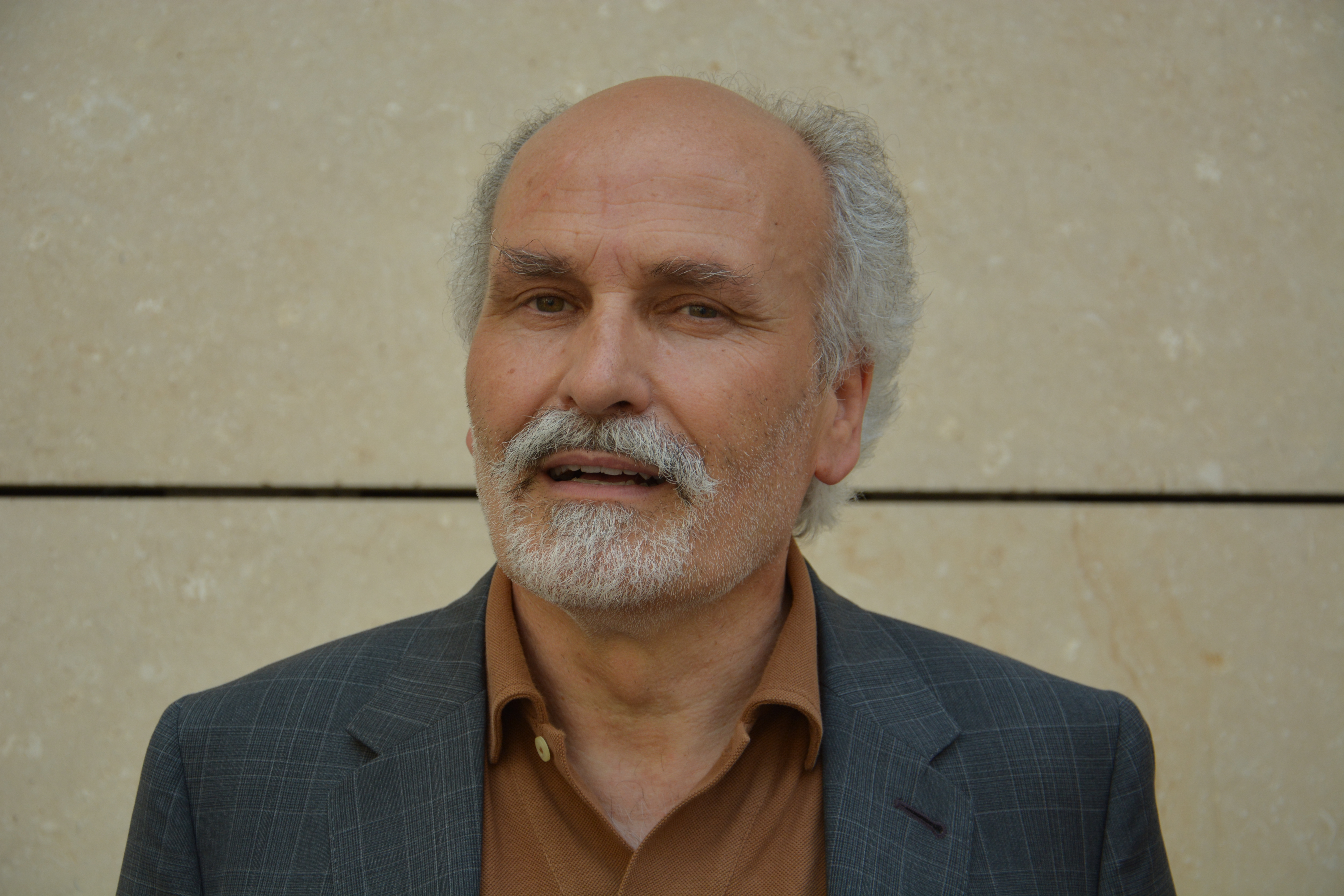 Ugo Morelli